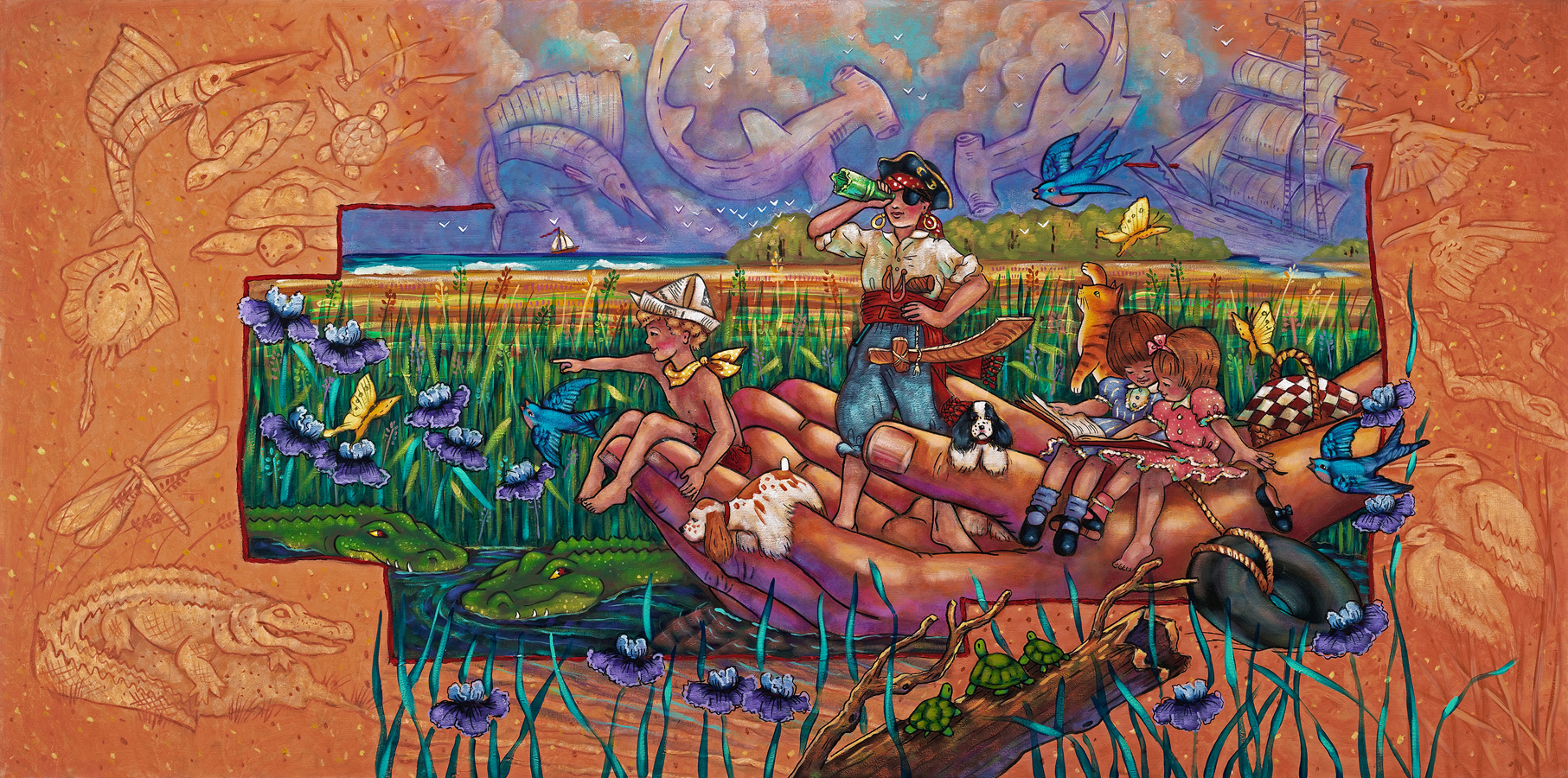 Oil on canvas, 36"x72", painted to illustrate the children's, spiritual book "Just Imagine".